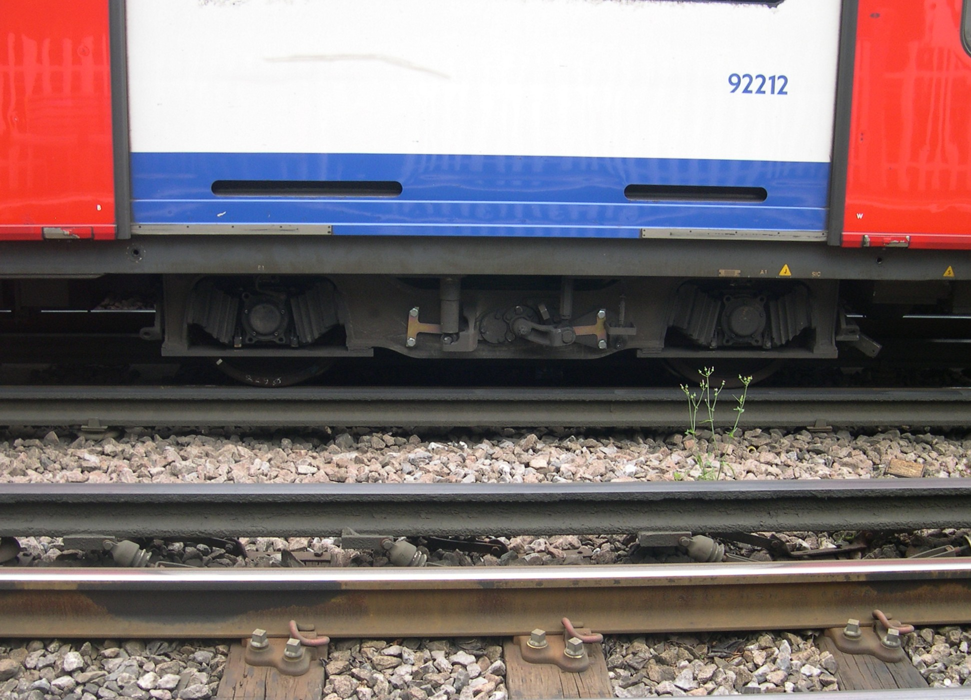 A Bogie truck of a 1992 tube stock